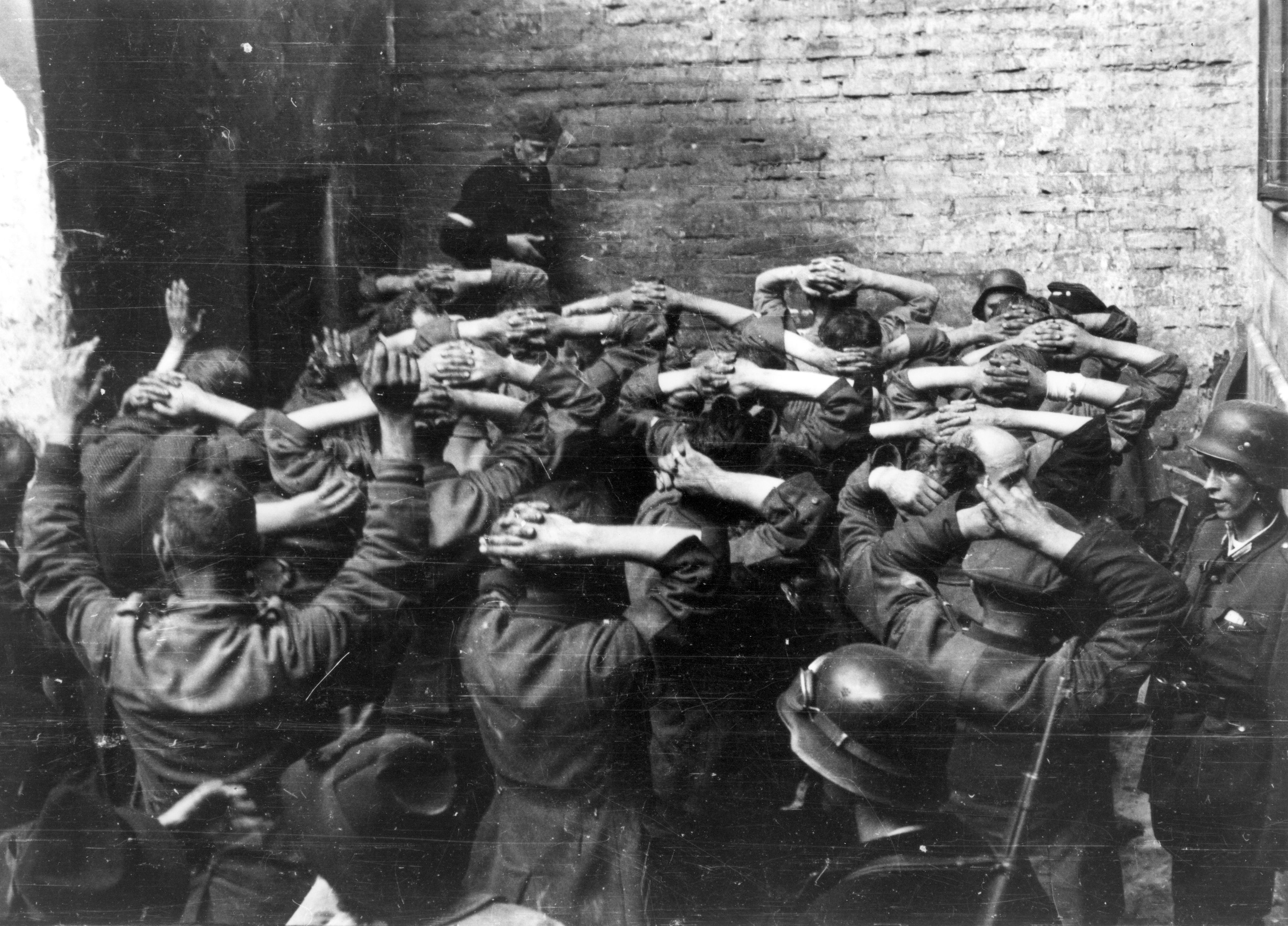 Warsaw Uprising: German POW’s taken in PAST-a building in a courtyard of a townhouse on Zielna street